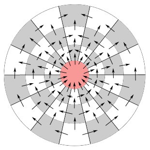 A diagram of the possible movements of a pawn in diplomat chess